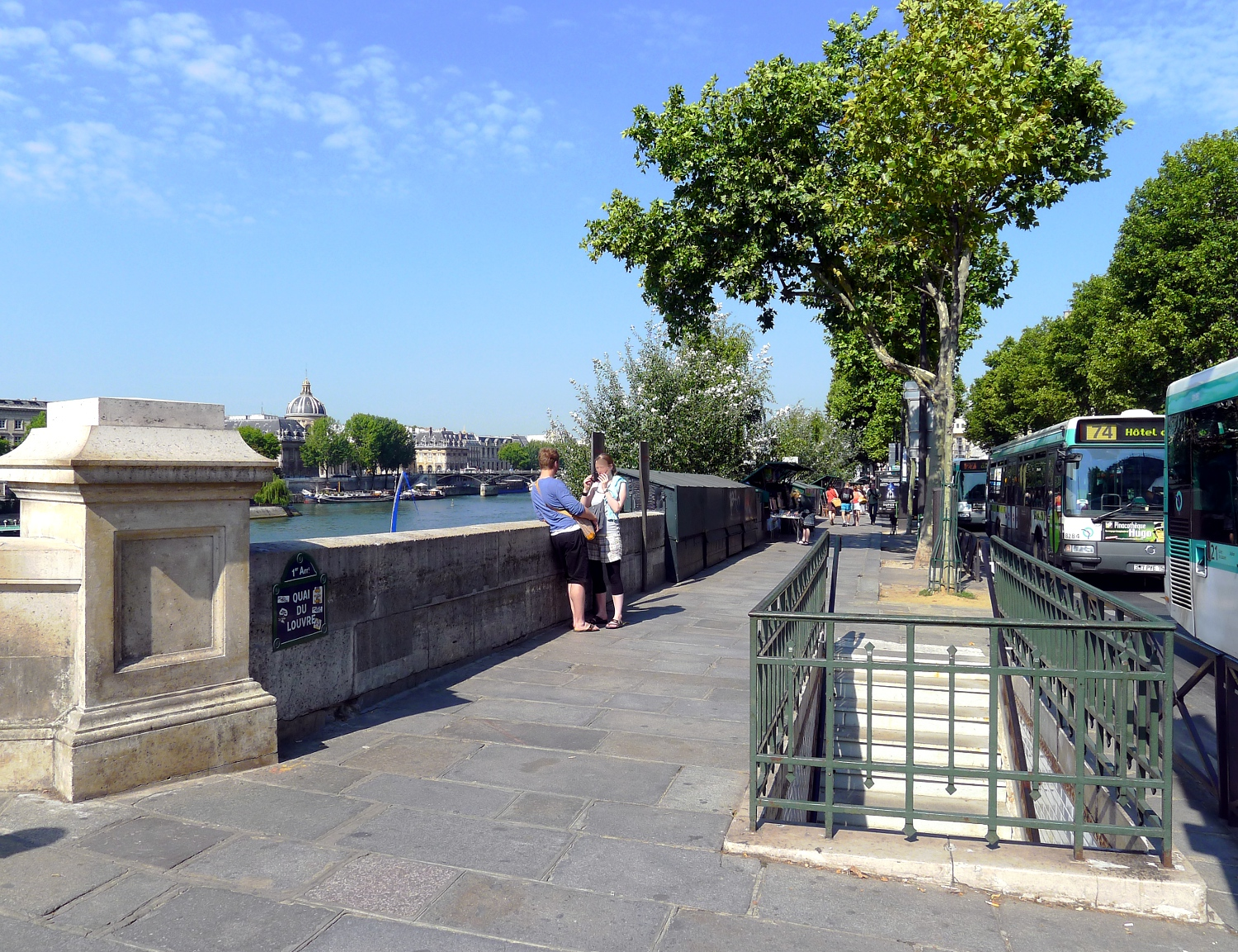 Quai du Louvre - Paris